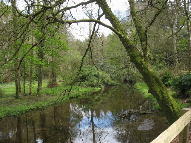 A placid reach on Afon Llifon